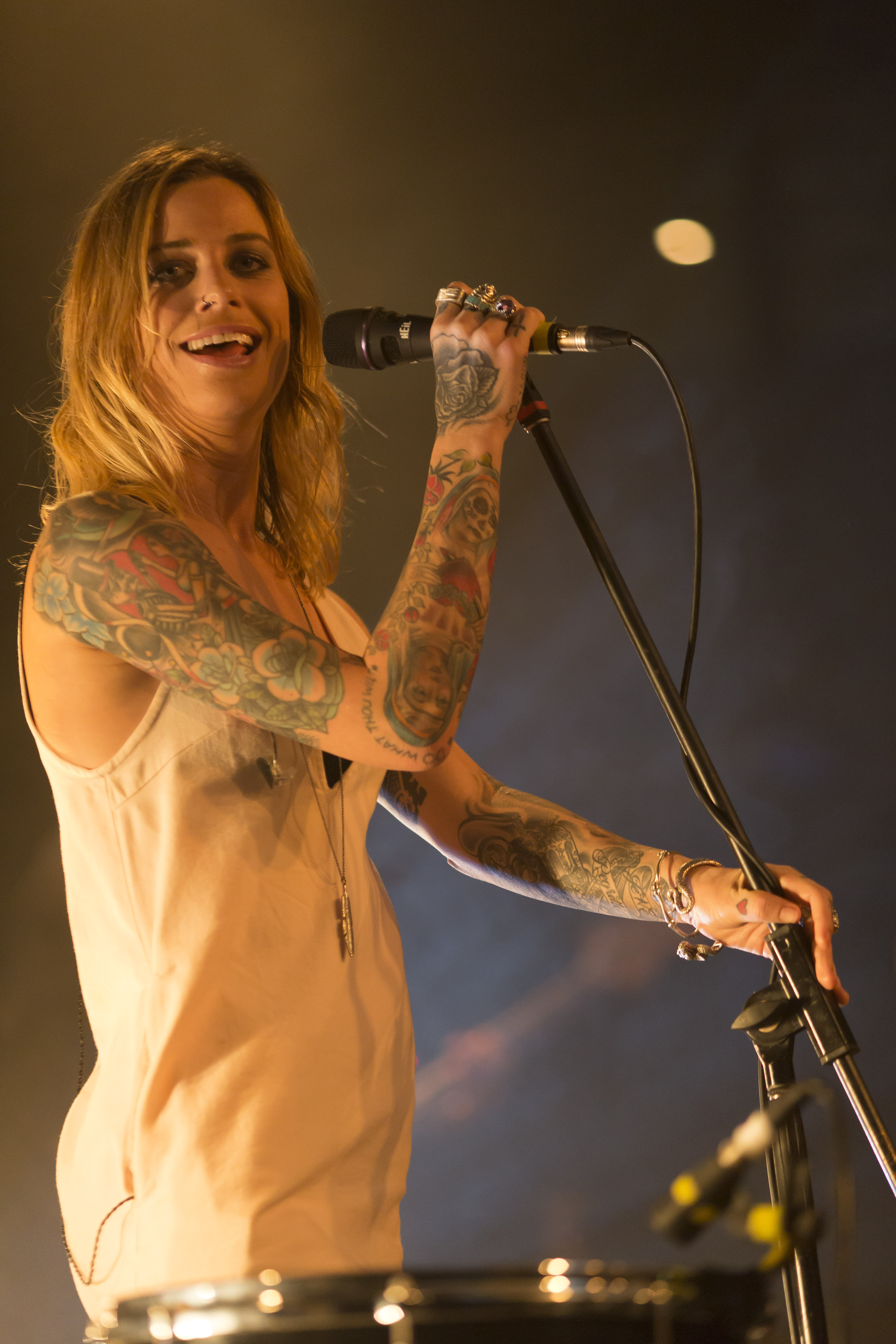 Gin Wigmore - Factory Theatre - 11th Dec 2015